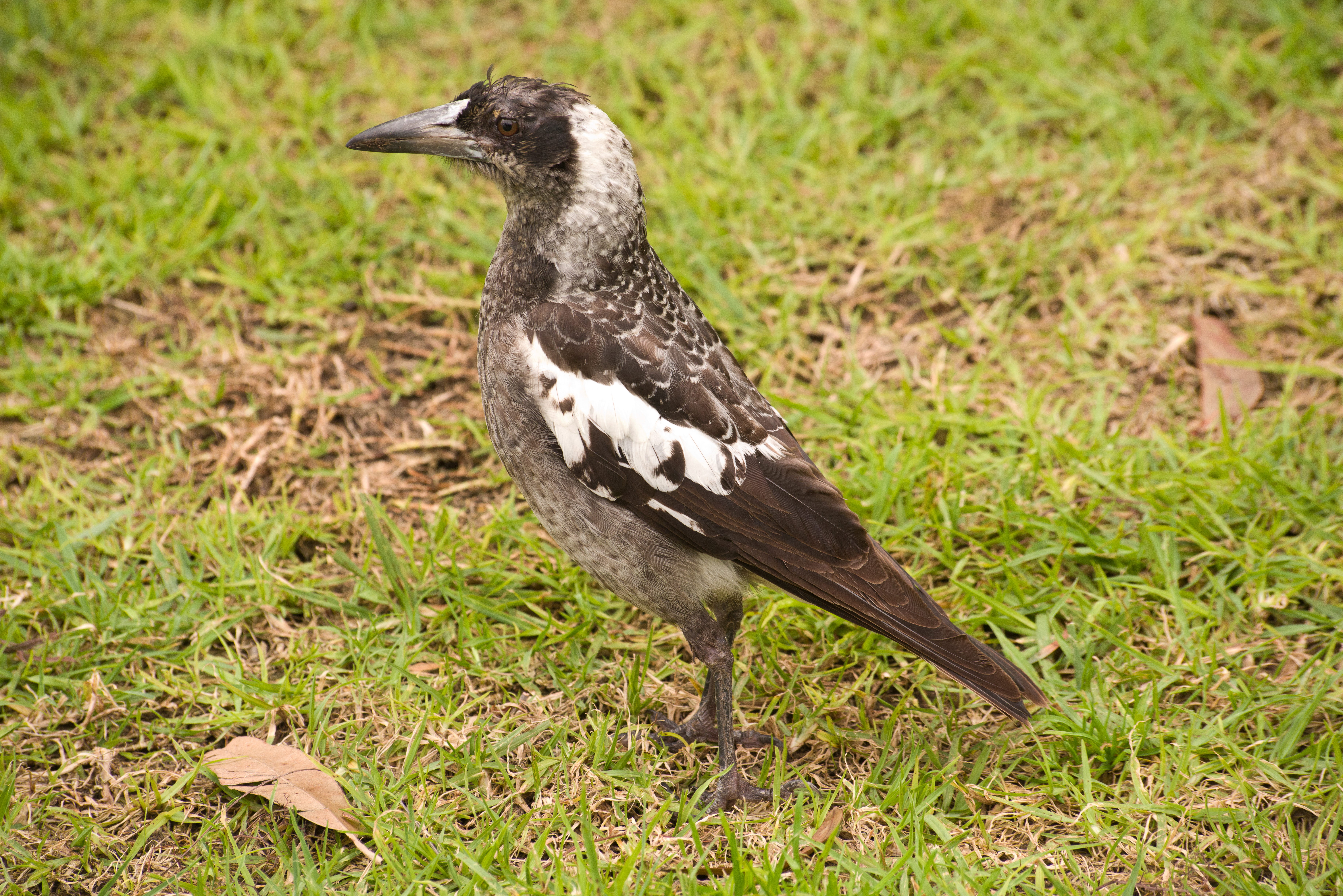 Juvenile Australian Magpie